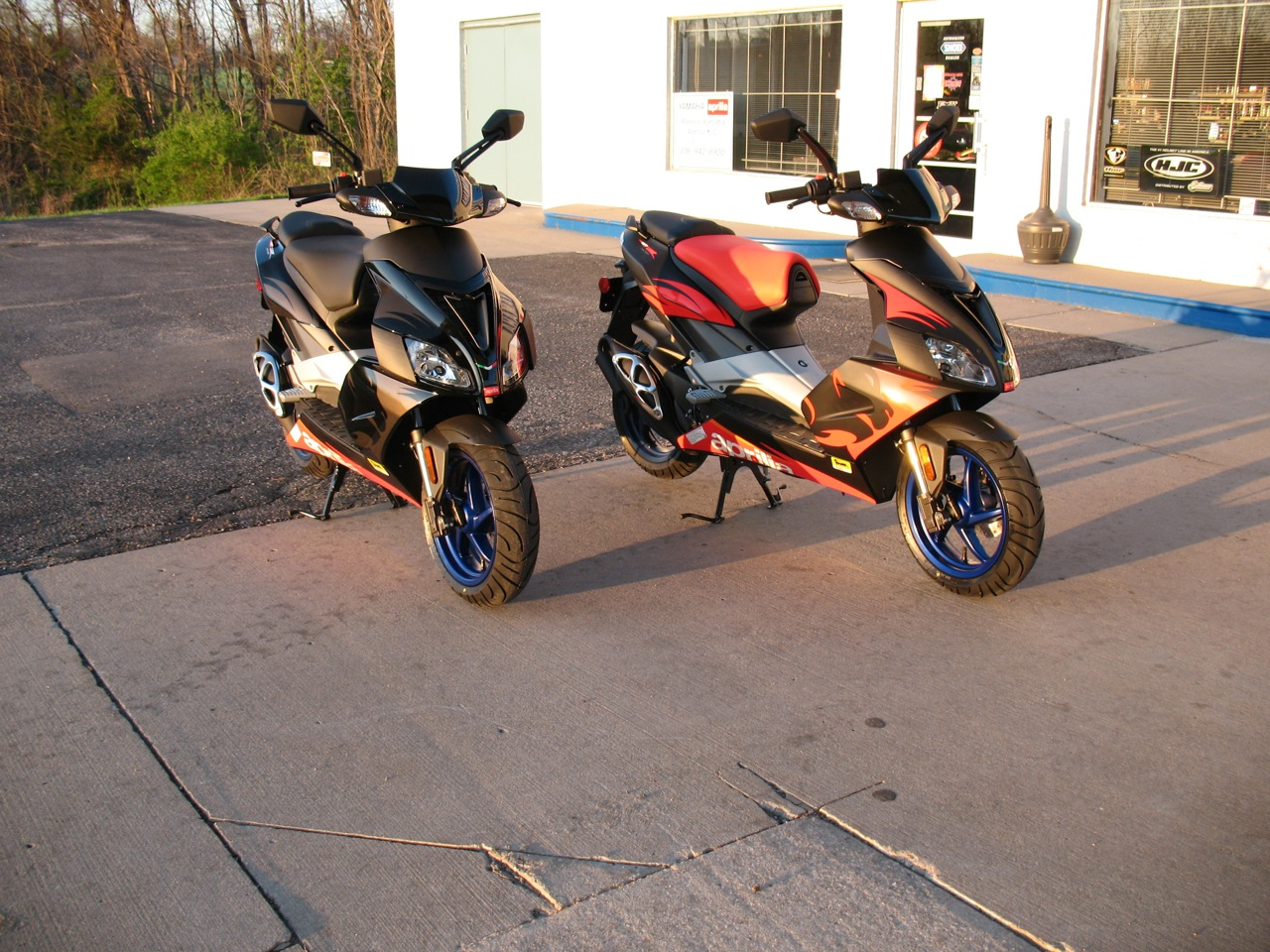 Brian & I Picking up our 2007 Aprilia SR50Rs in Kansas City